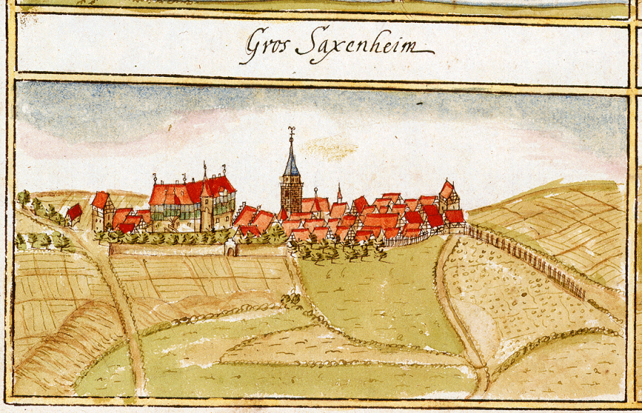 View of Großsachsenheim, Sachsenheim, from the forest register books created by Andreas Kieser